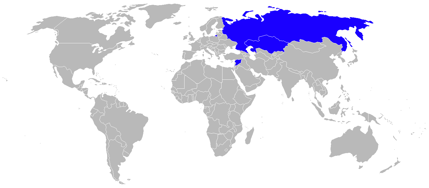 MiG-31 operators as of August 2015